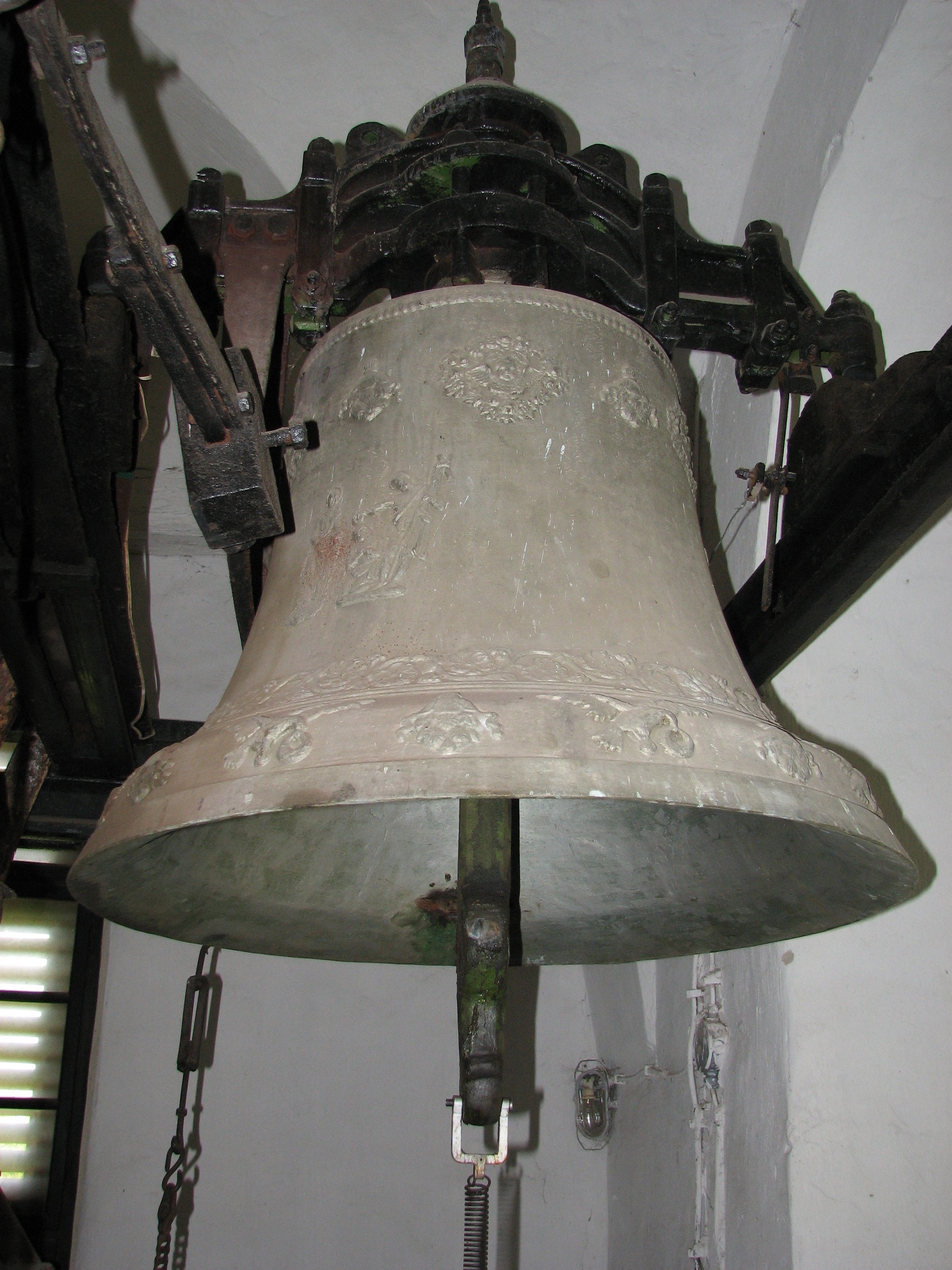 The John Paul II. Bell of the Greek Catholic Cathedral of Hajdúdorog, Hungary. It is the northern and the youngest bell of the three bells of the cathedral. It was founded by Lajos Gombos from the town of Őrbottyán in 1991. The lines on the bell say: "In the year of the pilgrimage of Pope John Paul II. to Máriapócs this bell was ordered to re-found by János Lelesz and his wife Anna Szalka from Hajdúdorog in the year of the Lord 1991."